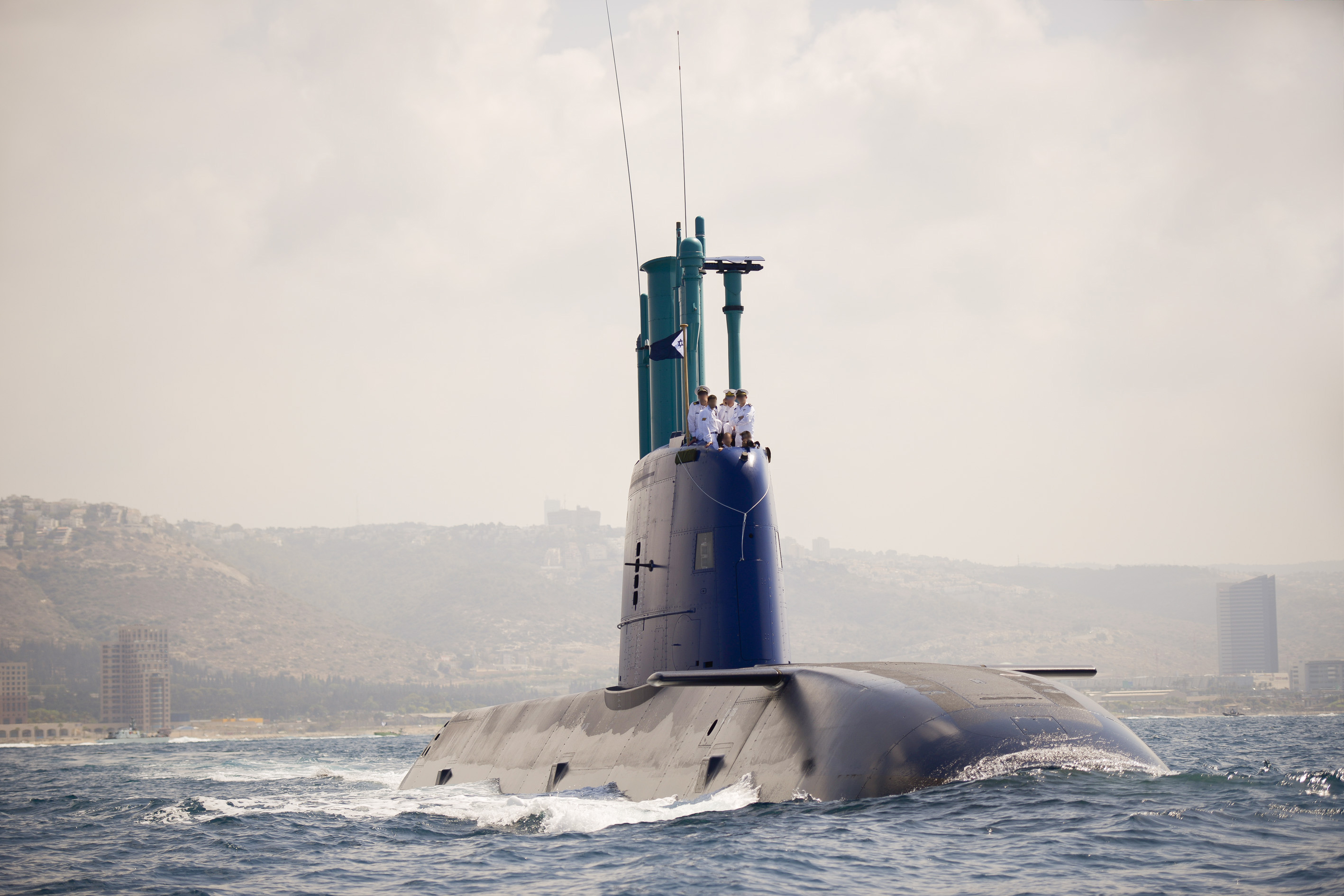 INS Tanin